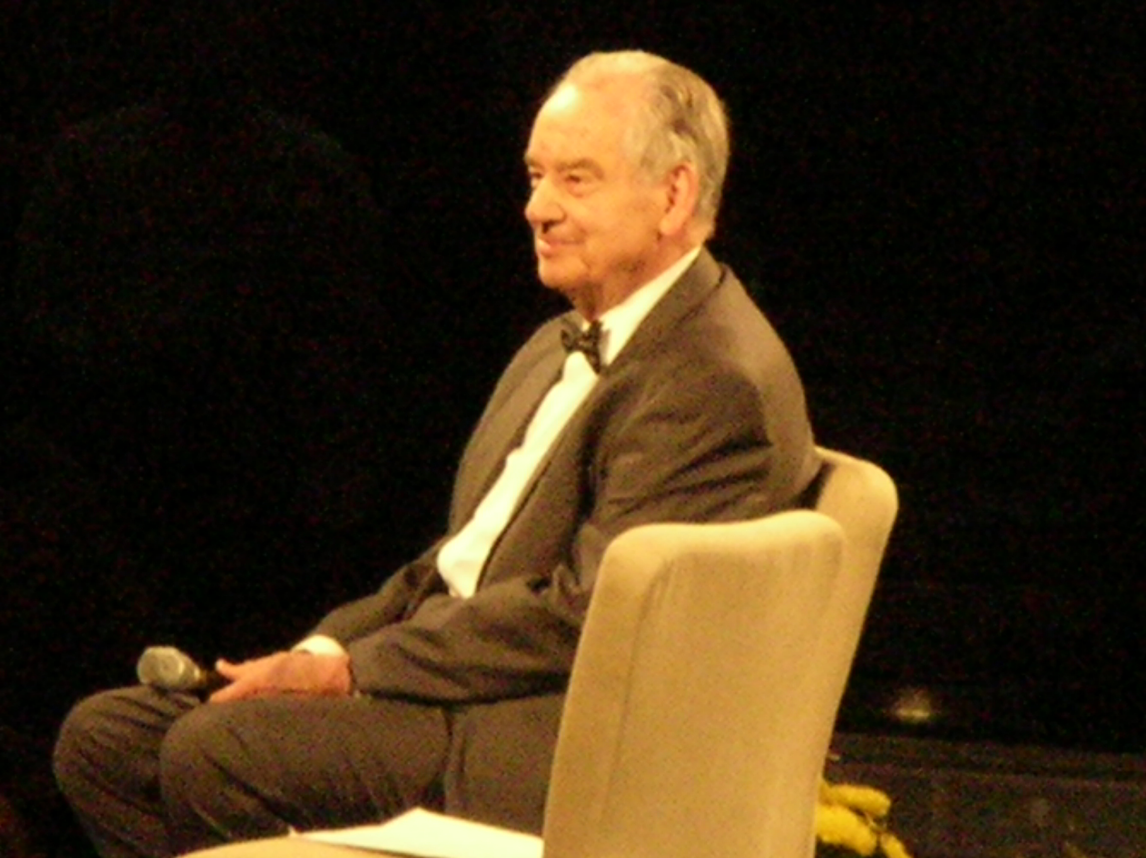 Zig Ziglar speaks at the Get Motivated Seminar at the Cow Palace in Daly City, California.